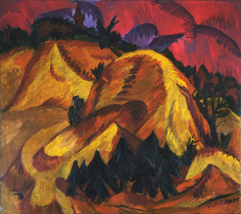 Sand Hills in Engadine